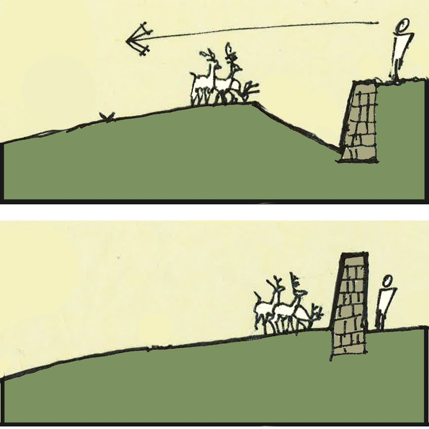 a diagram contrasting a haha wall with a regular wall